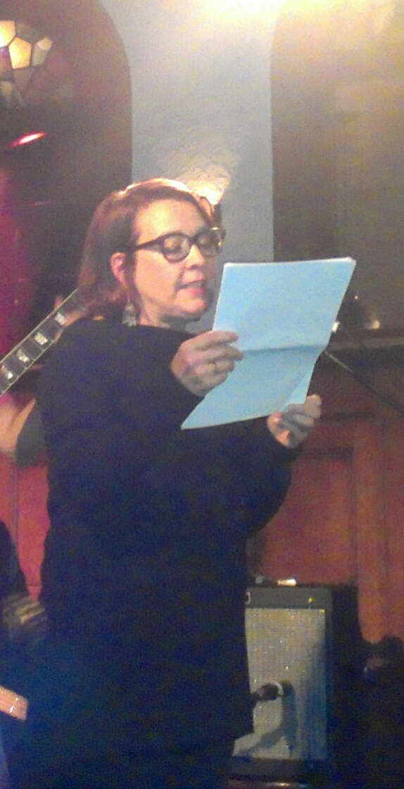 Élise Turcotte photographed in Montreal, Quebec, Canada inside Quai Des Brumes.